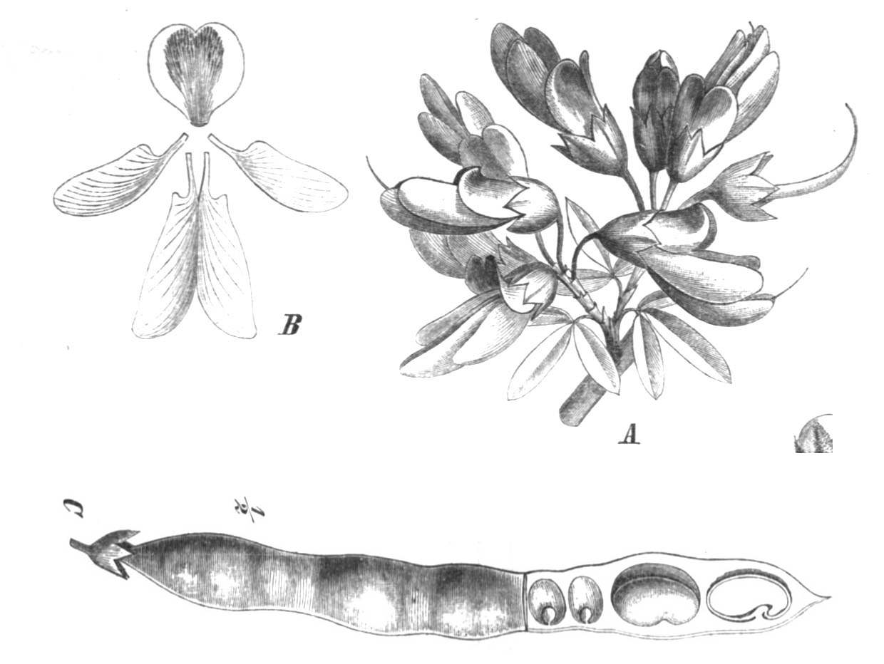 Illustration from book